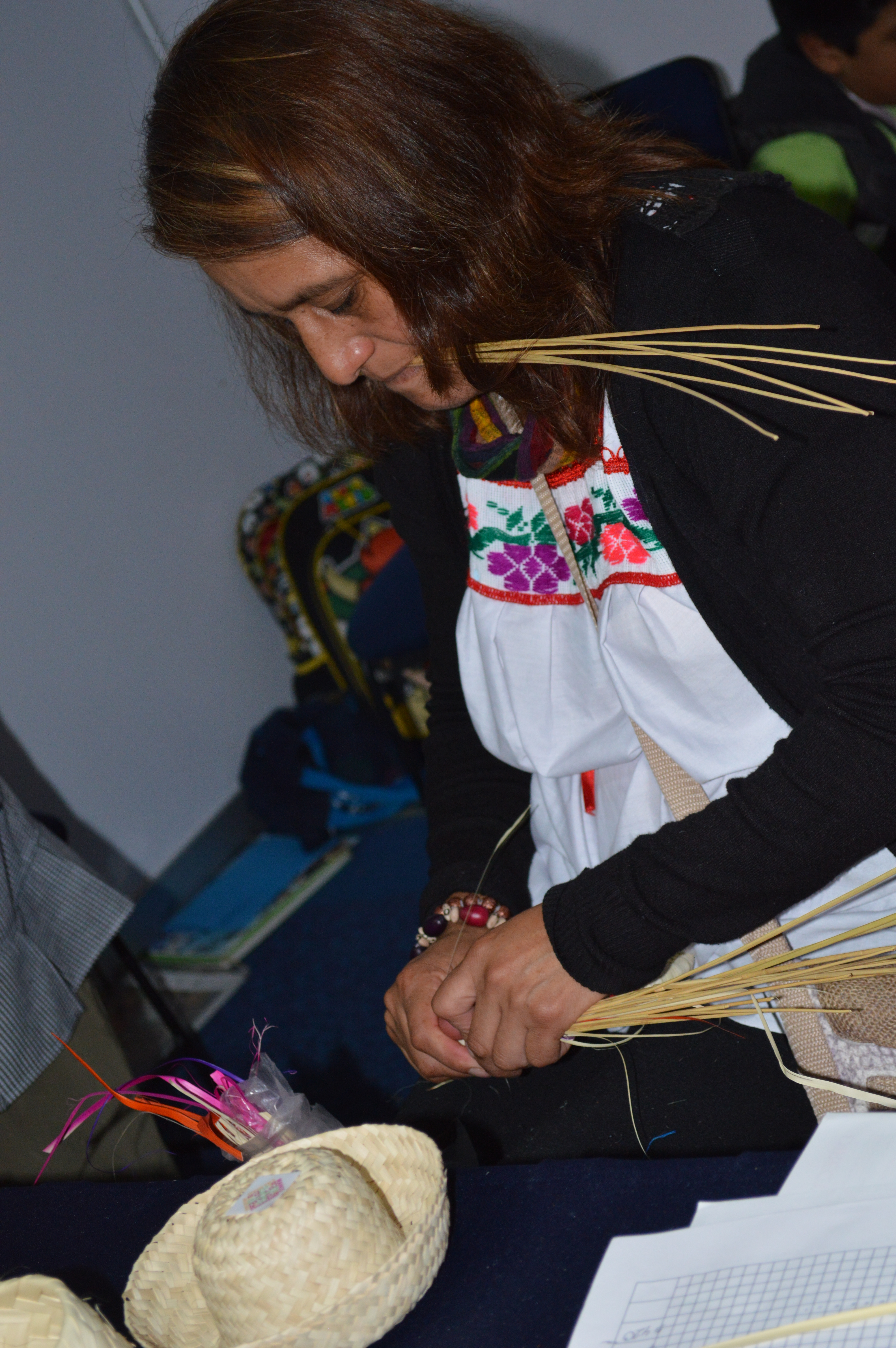 Woman from the State of Mexico weaving palm frond hats at the Expo de los Pueblos Indígenas 2015 in Mexico City